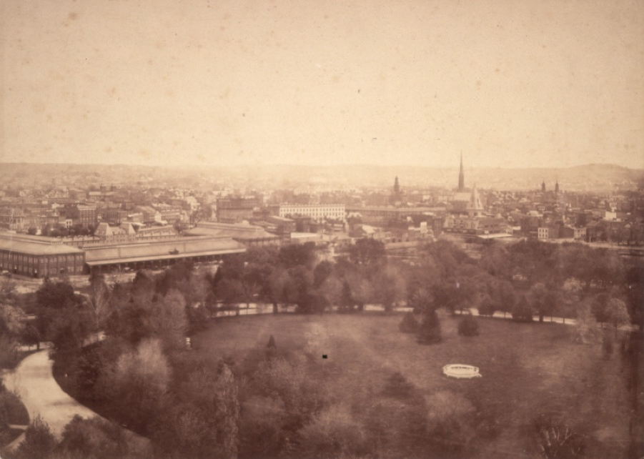 Title: Panoramic view of Washington, D.C. Creator(s): Hacker, Francis, photographer Date Created/Published: 1879? Medium: 5 photographic prints (1 panorama) : albumen ; 16 x 22 in. Summary: Five-part panorama shows the mall area of Washington, D.C., and surrounding buildings, from the Smithsonian Institution Building (now the "Castle"). Left section shows Washington Monument under construction in background, with Agriculture Department at left. The left center and center sections show the B Street (now Constitution Avenue) side of the Mall with building trade structures and Center Market. The right center section shows Baltimore and Potomac railroad station and tracks. The right section includes the U.S. Capitol in background and Independence Avenue area of Capitol Hill. Reproduction Number: LC-USZC4-12138 (color film copy transparency of right section) LC-USZ62-90246 (b&w film copy neg. of left section) LC-USZ62-90247 (b&w film copy neg. of left center section) LC-USZ62-90248 (b&w film copy neg. of center section) LC-USZ62-90249 (b&w film copy neg. of right center section) LC-USZ62-90250 (b&w film copy neg. of right section) Rights Advisory: No known restrictions on publication. No known restrictions on publication. Call Number: LOT 12361, no. 1 [item] (H size) [P&P] Repository: Library of Congress Prints and Photographs Division Washington, D.C. 20540 USA Notes: All prints are albumen except for the center section, which is silver printing-out paper. Attributed to Francis Hacker. Five separate prints provide a panoramic view when placed side-by-side. Photos are numbered to indicate arrangement sequence. Transfer; LC Geography & Map Division (original source unknown). Published in: Washingtoniana Photographs ... Library of Congress, 1989.